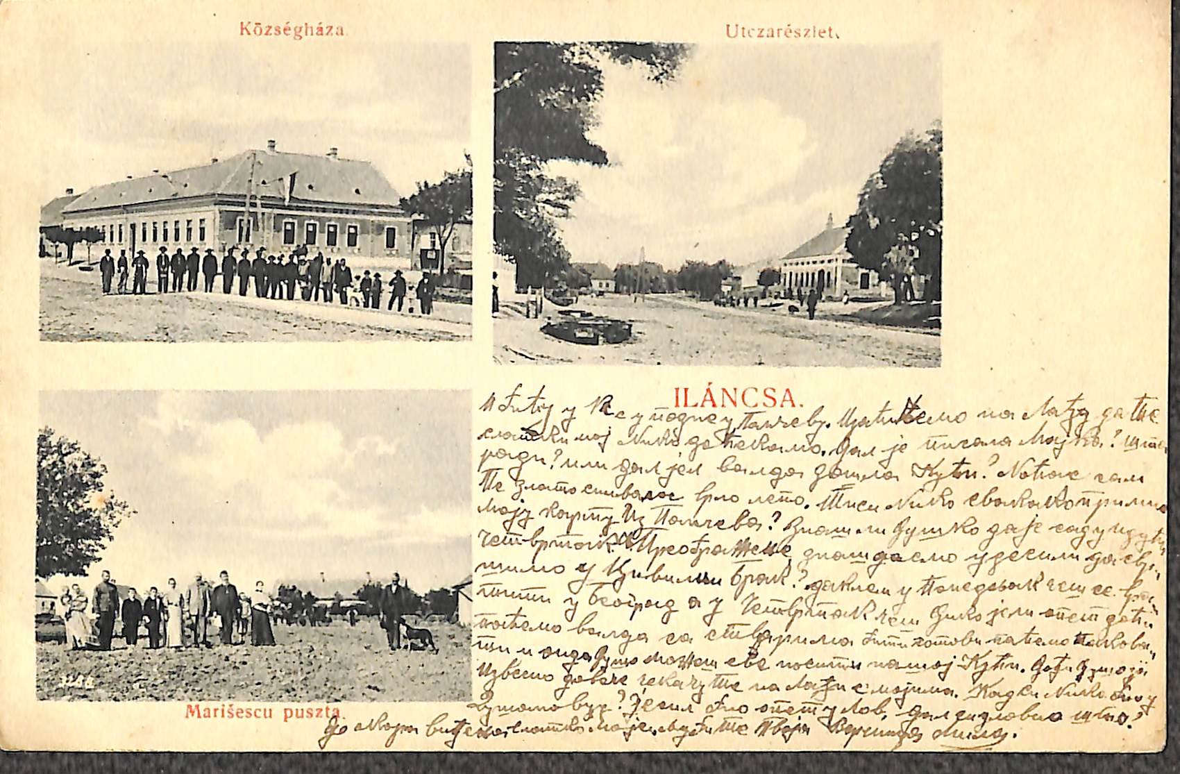 Ilandža on the postcard